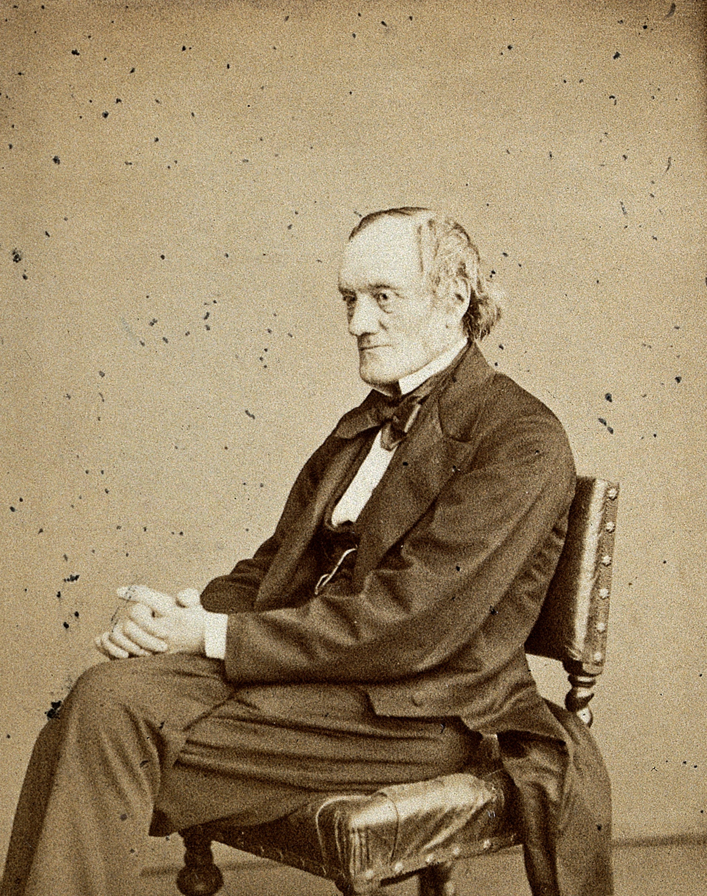 Sir Richard Owen. Photograph by Ernest Edwards, 1867. Iconographic Collections Keywords: portrait photographs